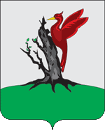 Coat of Arms of Elabuga, 2006.